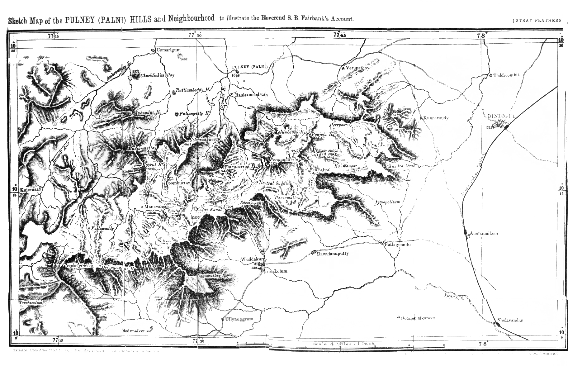 Map of the Kodaikanal - Palani region to illustrate article by S. B. Fairbank